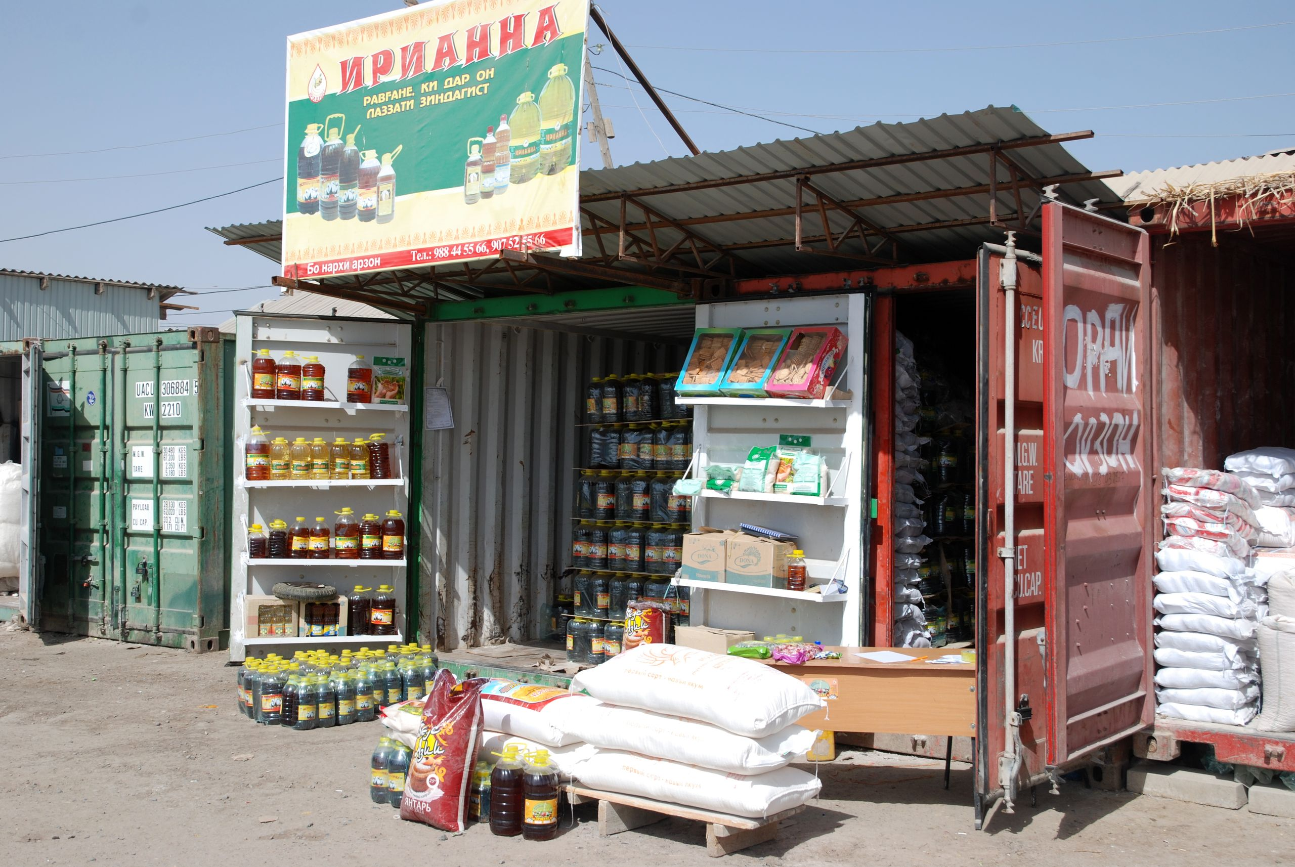 Danghara, market